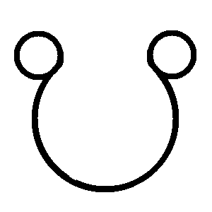 Symbol of Ketu in Hinduism